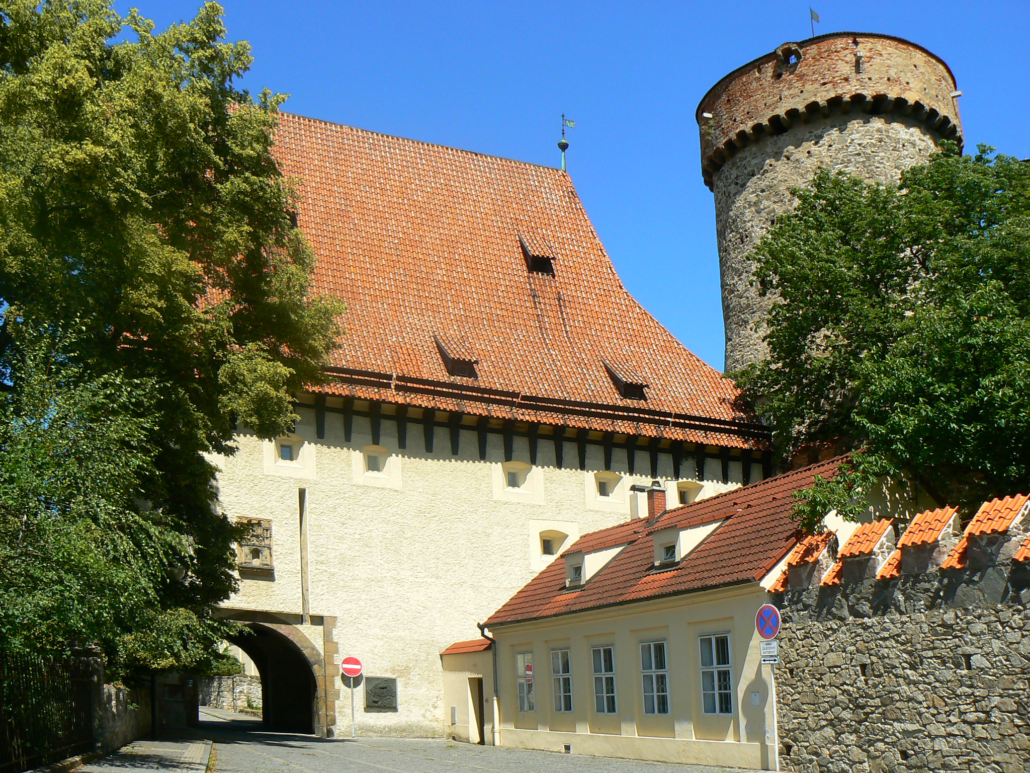 Kotnov Tower and Bechyňská Gate, Tábor, Czech Republic